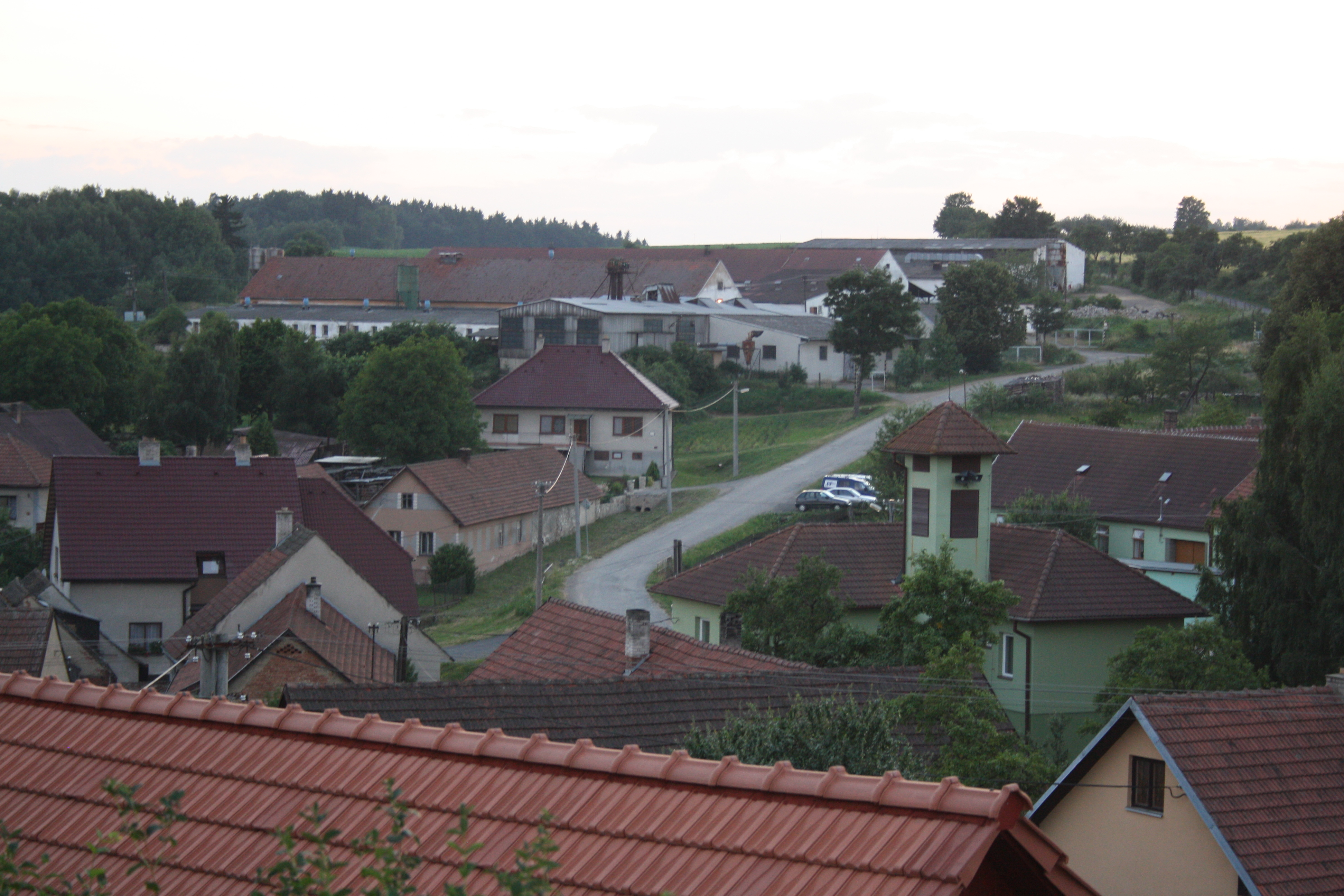 Radošov overview.